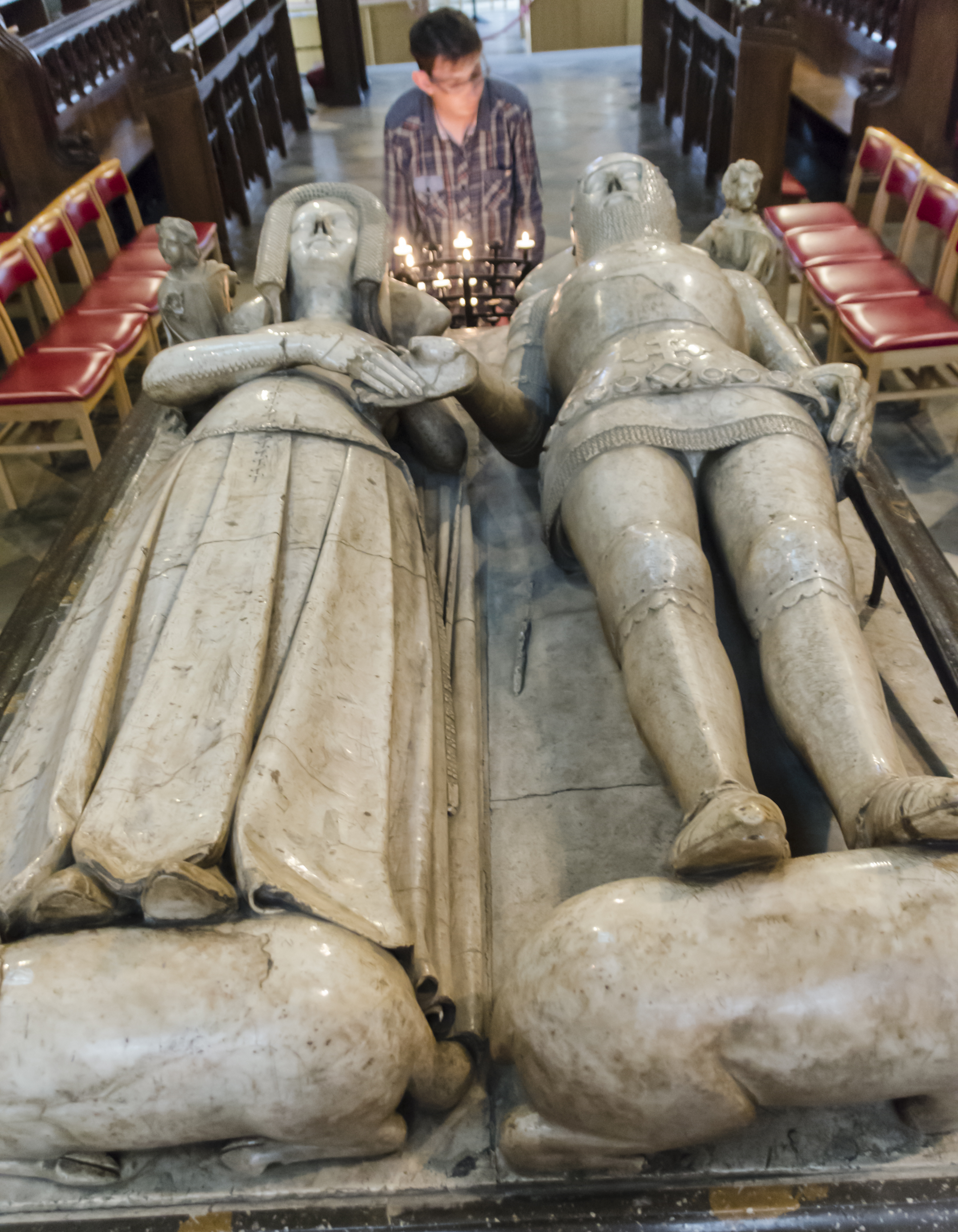 Effigy of Thomas de Beauchamp d. 1369, with arms of Beauchamp on his tabard. Holding hands with his wife Catherine Mortimer, daughter of Roger Mortimer. They had five sons and ten daughters. The plinth is surrounded with weepers dressed in the fashion of the 14th century. He fought in the French wars of Edward III. He was High Sheriff of Worcestershire, Leicestershire and Warwickshire, and instrumental in the building of the church. He died of the Black Death.